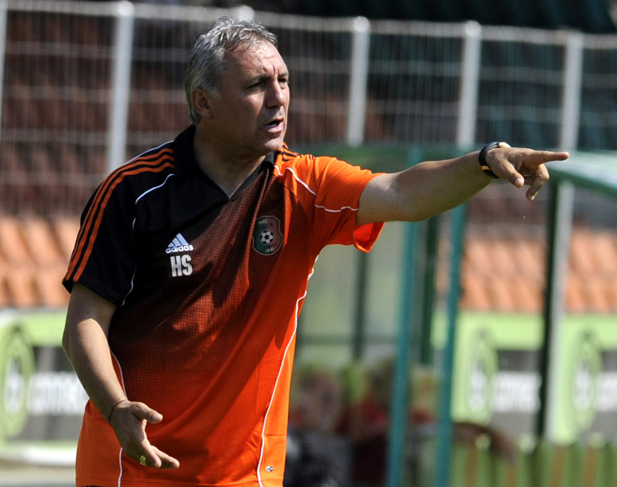 Hristo Stoichkov